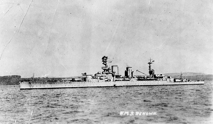 The Royal Navy battlecruiser HMS Renown photographed circa 1918. Note the aircraft carried atop her "B" turret.